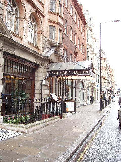 Wigmore Hall. A small concert hall used for recitals and chamber music. The frontage on Wigmore Street is very narrow, just the width of the pediment over the canopy. A long thin foyer leads back to the hall behind. It was built in 1901 by the German piano company Bechstein as a showcase, and has excellent acoustics. It became the Wigmore Hall in 1917 and is a leading recital hall. See its website